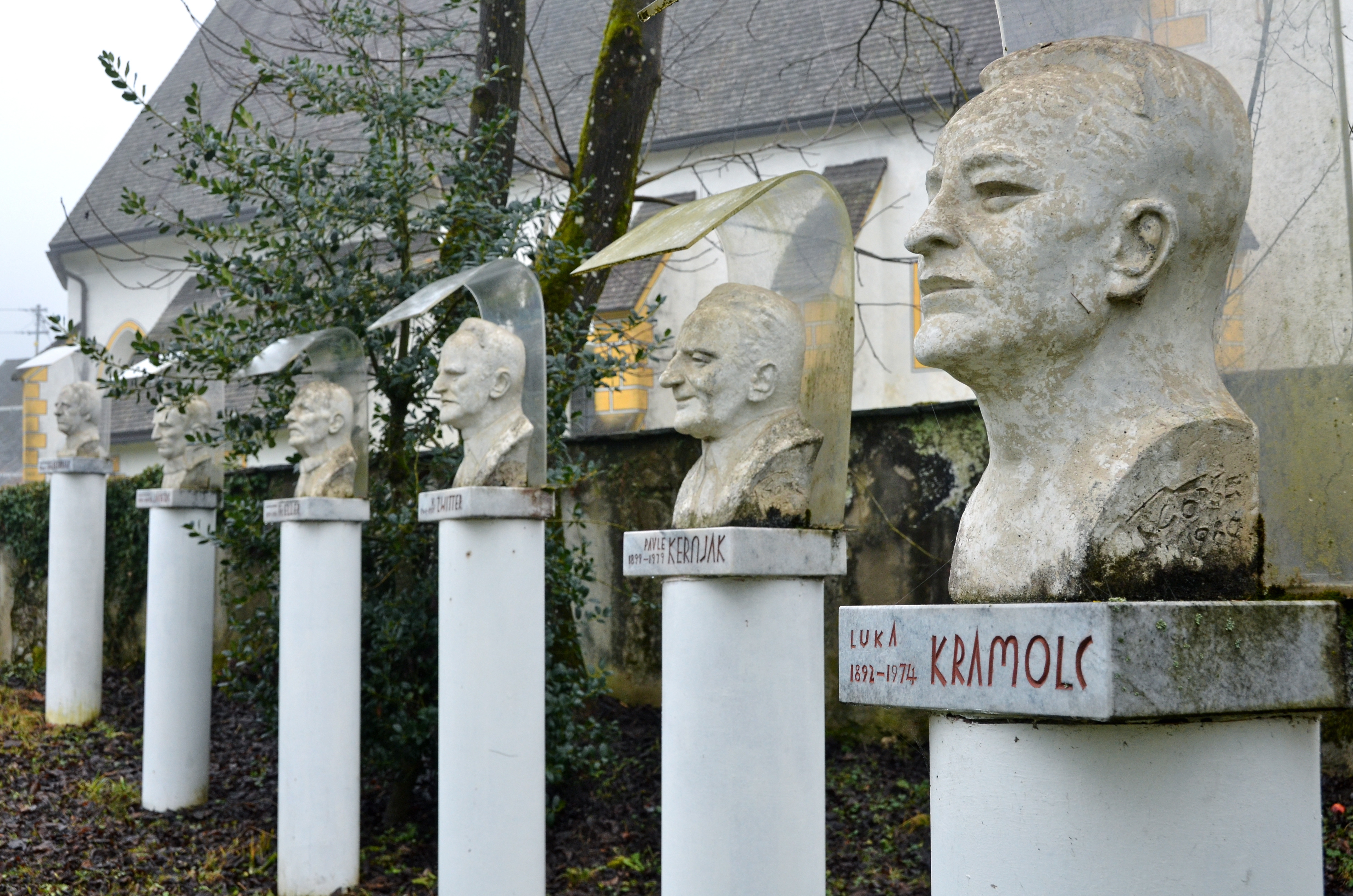 Busts created by the Slovenian sculptor France Gorše at the cultural park at Suetschach, market town Feistritz im Rosental, district Klagenfurt Land, Carinthia / Austria / EU